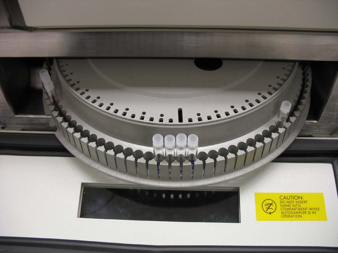 The inside of sample holder of Waters GPC instrument